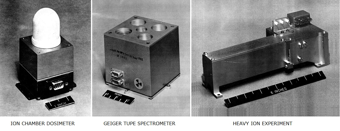 A set of the experiment hardware used in the South Atlantic Anomaly Probe (SAAP) project.